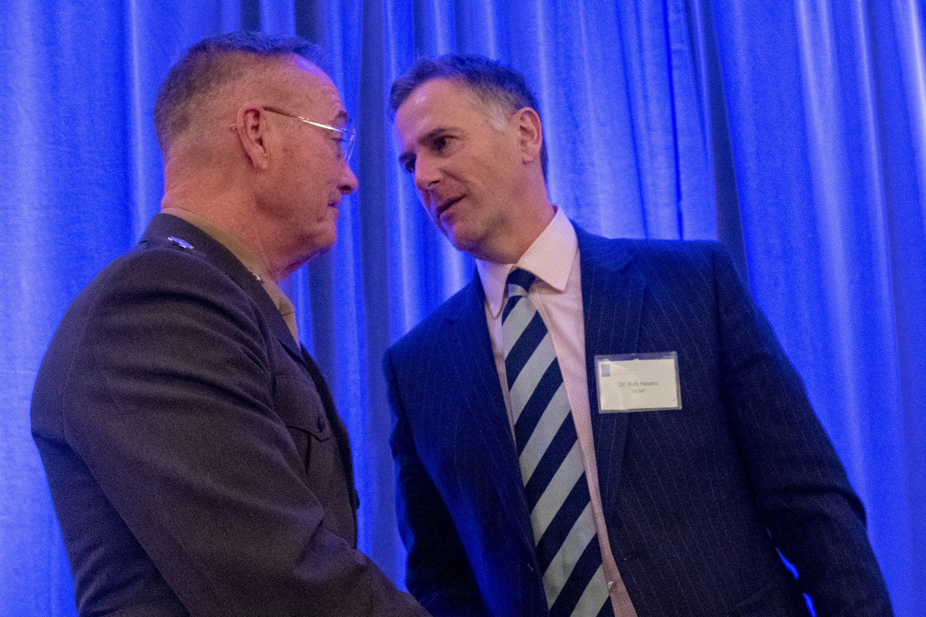 Marine Corps Gen. Joe Dunford, chairman of the Joint Chiefs of Staff, speaks to Dr. Rob Havers, President, George C. Marshall Foundation, before receiving the 2018 Andrew J. Goodpaster Award from the Marshall Foundation at The Mayflower Hotel in Washington, D.C., Dec, 7, 2018. (DoD Photo by Navy Petty Officer 1st Class Dominique A. Pineiro)